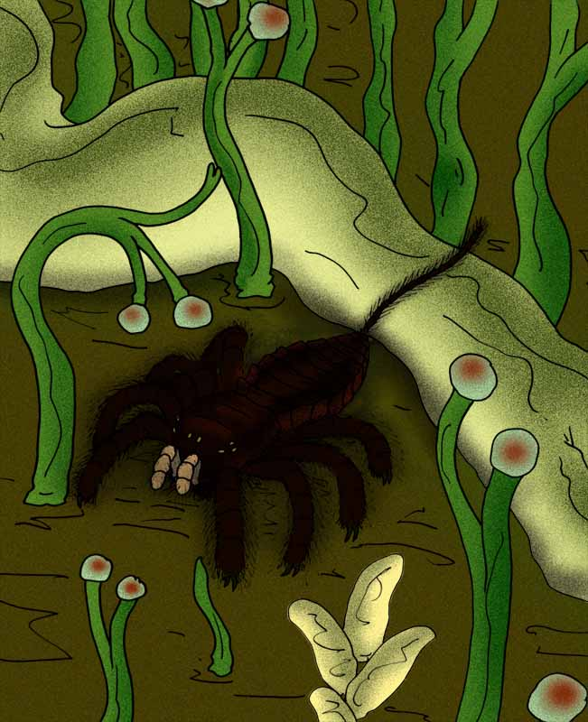 Reconstruction of the primitive arachnid Attercopus fimbriunguis of Devonian New York